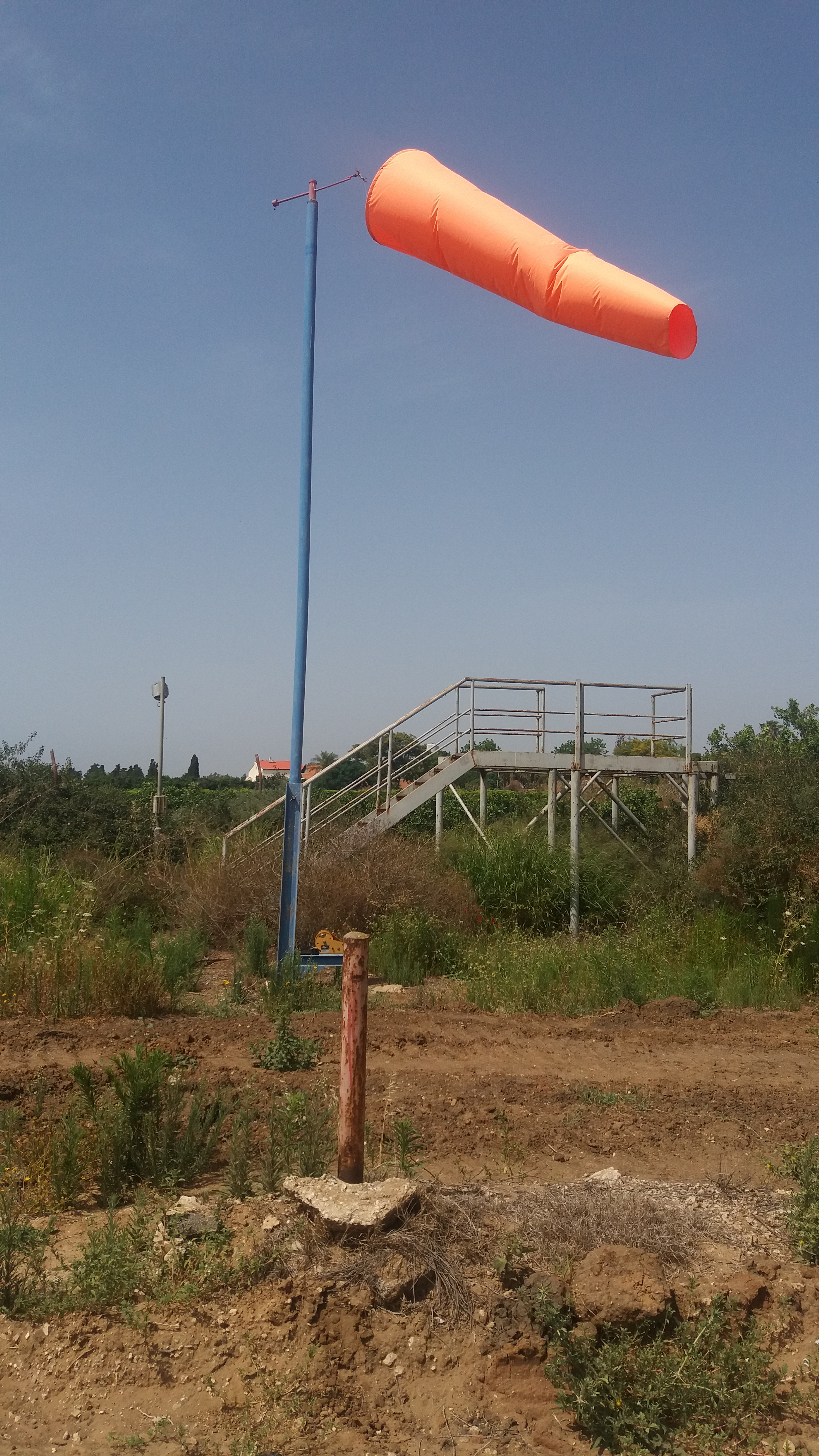 Wind cone of Herzliya airport